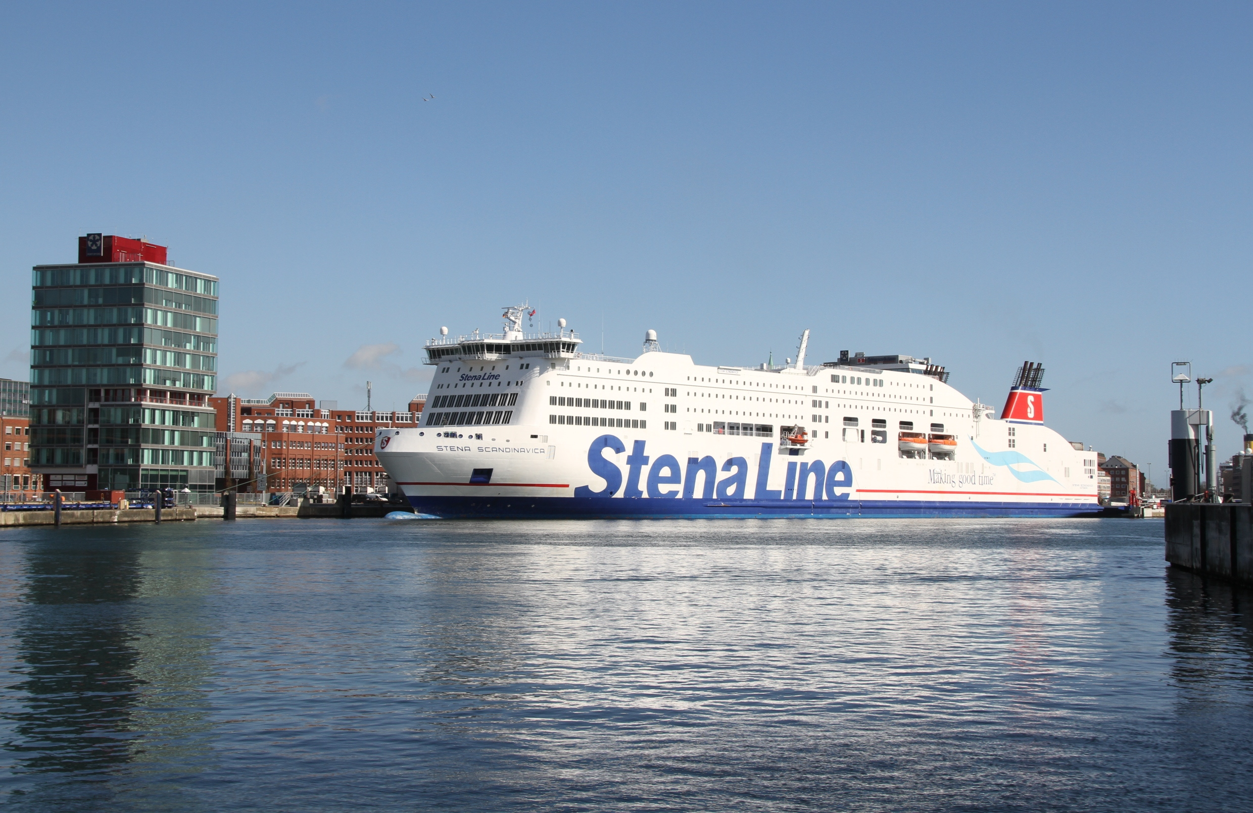 Stena Scandinavica ro-ro ferry, in Kiel (Germany)